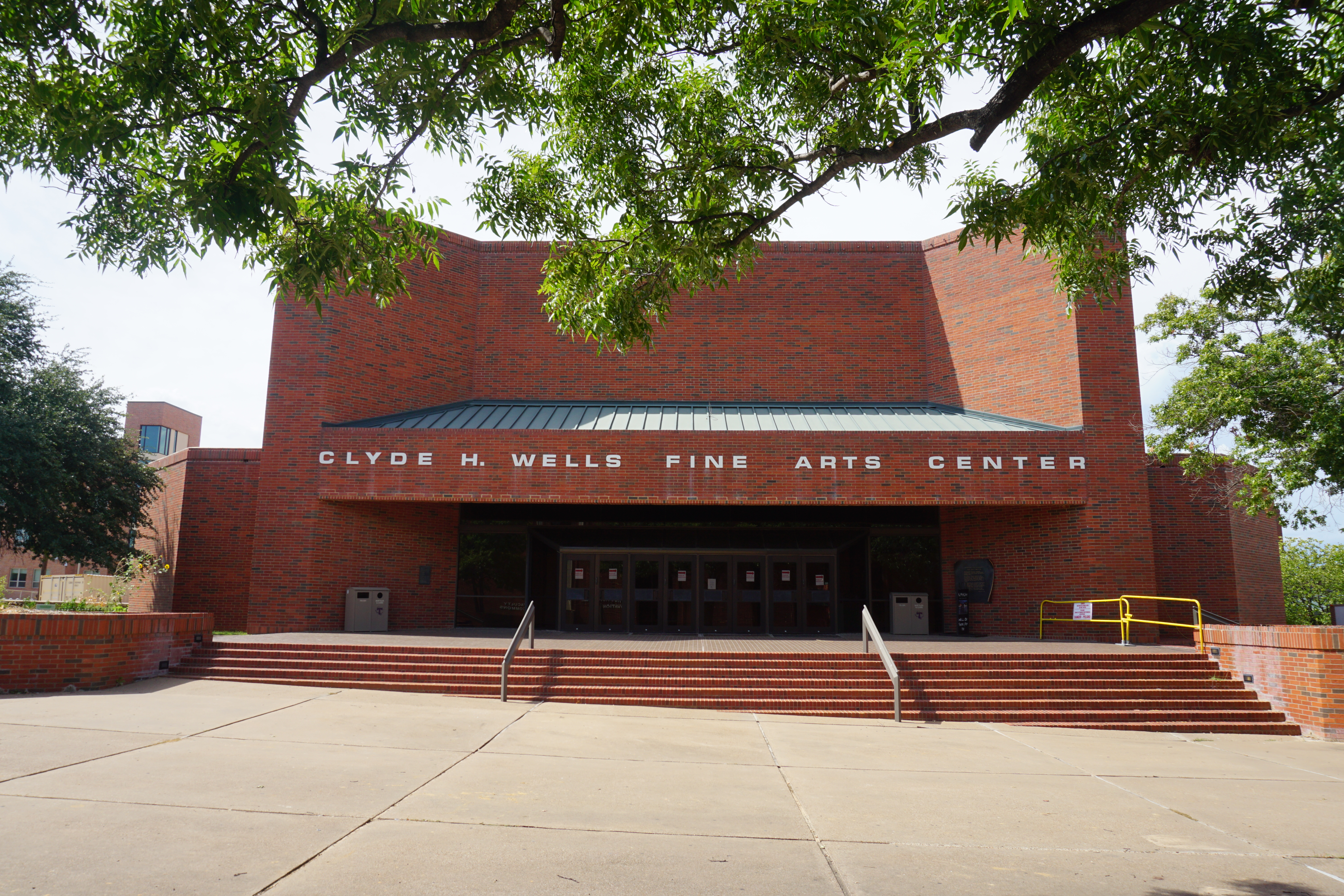 The Clyde H. Wells Fine Arts Center on the campus of Tarleton State University in Stephenville, Texas (United States).